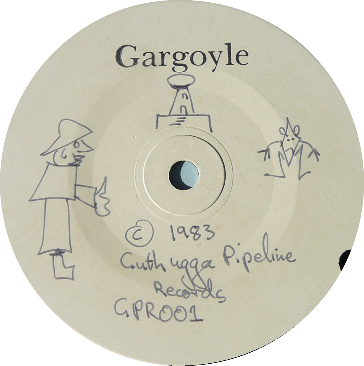 Photograph of an individually hand drawn record label for The Lighthouse Keepers' 45rpm single "Gargoyle", released independentently by their Guthega Pipeline label. Original artwork by Greg Appel the composer.